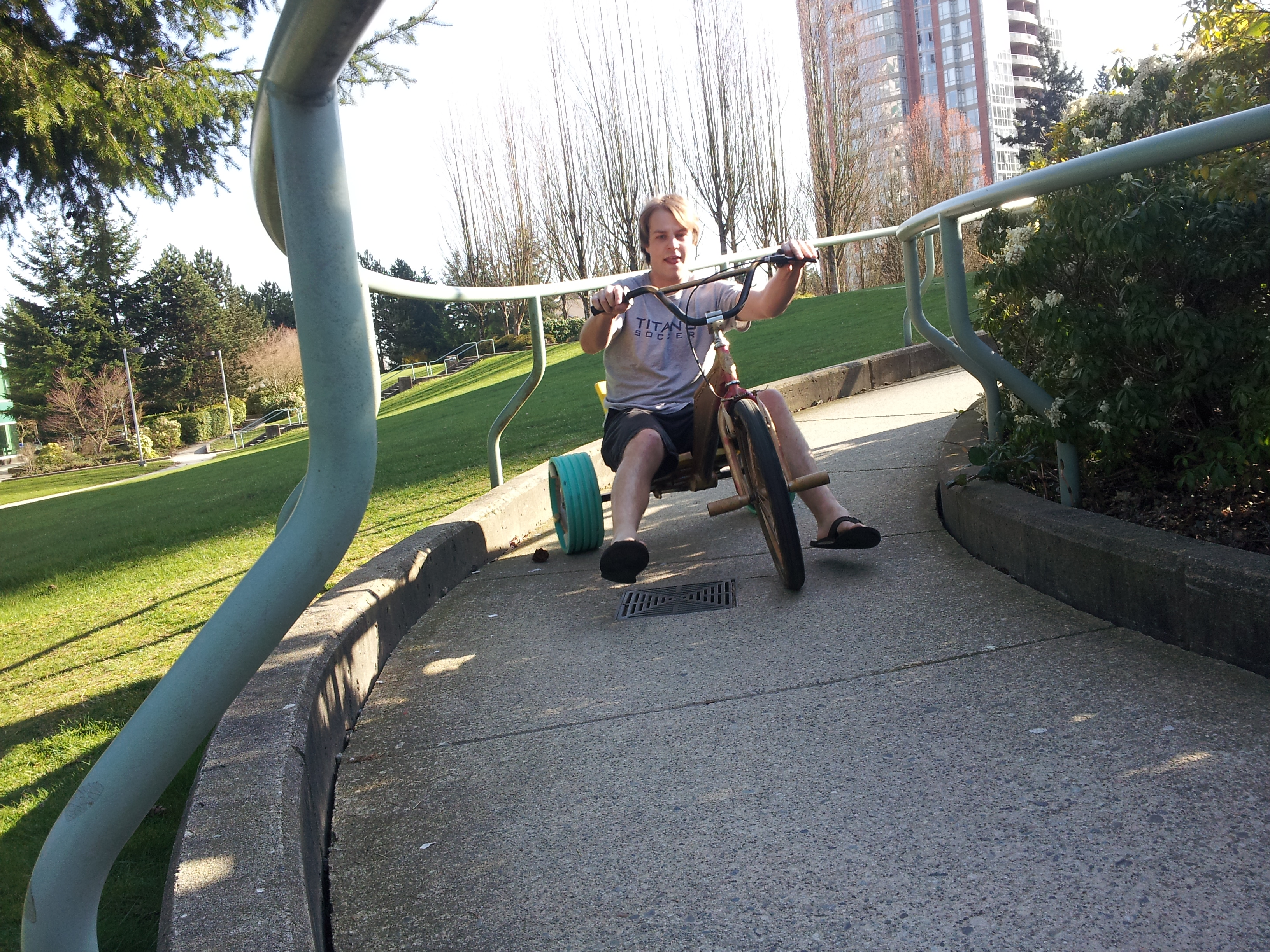 Fun Drift